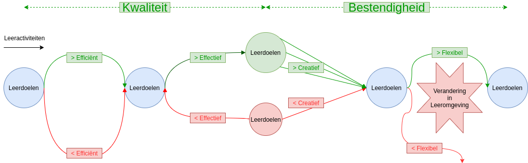 Quality of Learning proces is determined by the length of the learning activities, the number of the goals reached, the creativity represented by the number of alternatives and the resistance against disturbances.